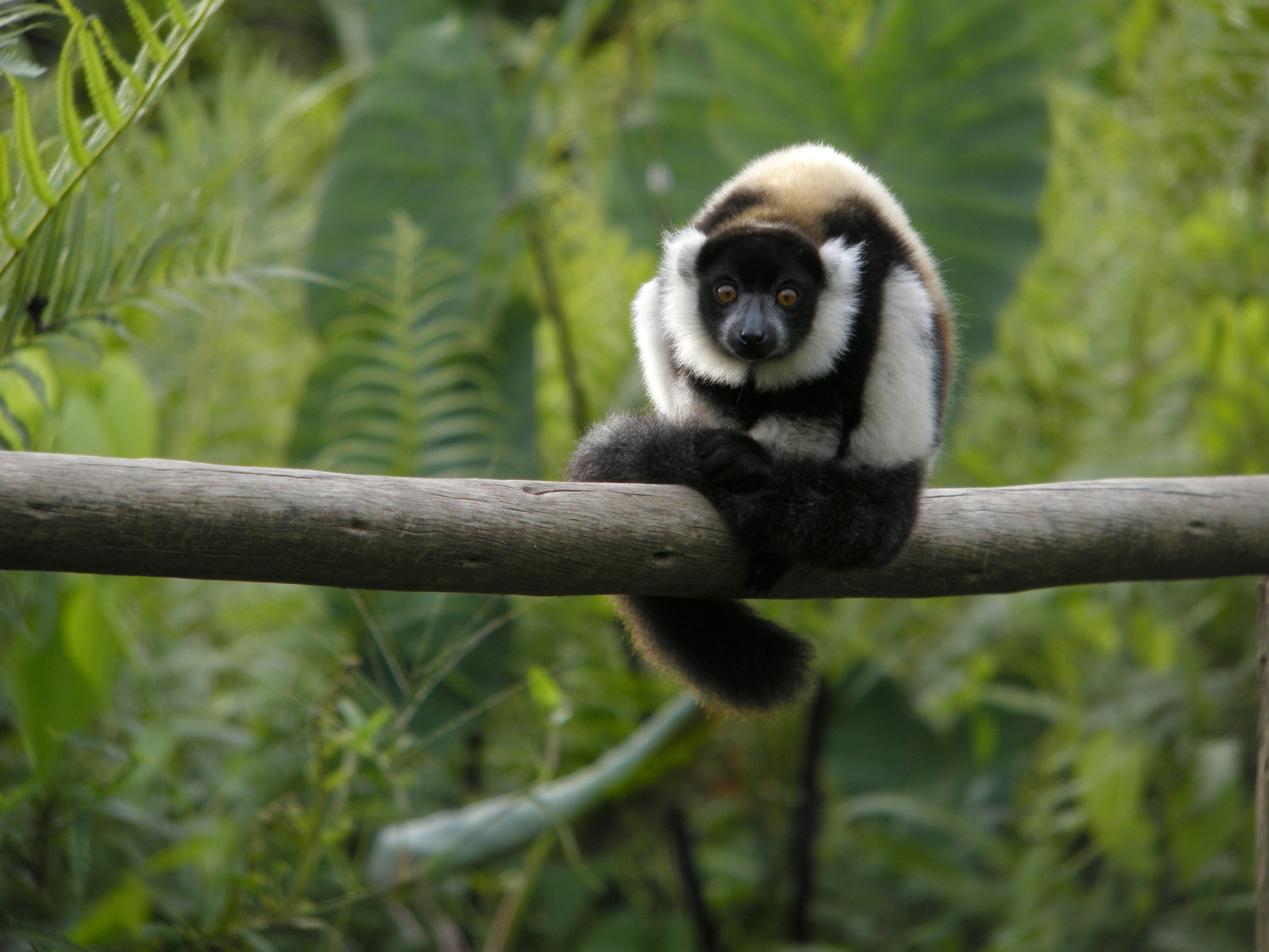 Juvenile Black-and-White Ruffed Lemur, Mantadia, Madagascar Digiscoping with Swarovski ATM 80 HD 30 X, Coolpix P5100 (Adapter DCB)